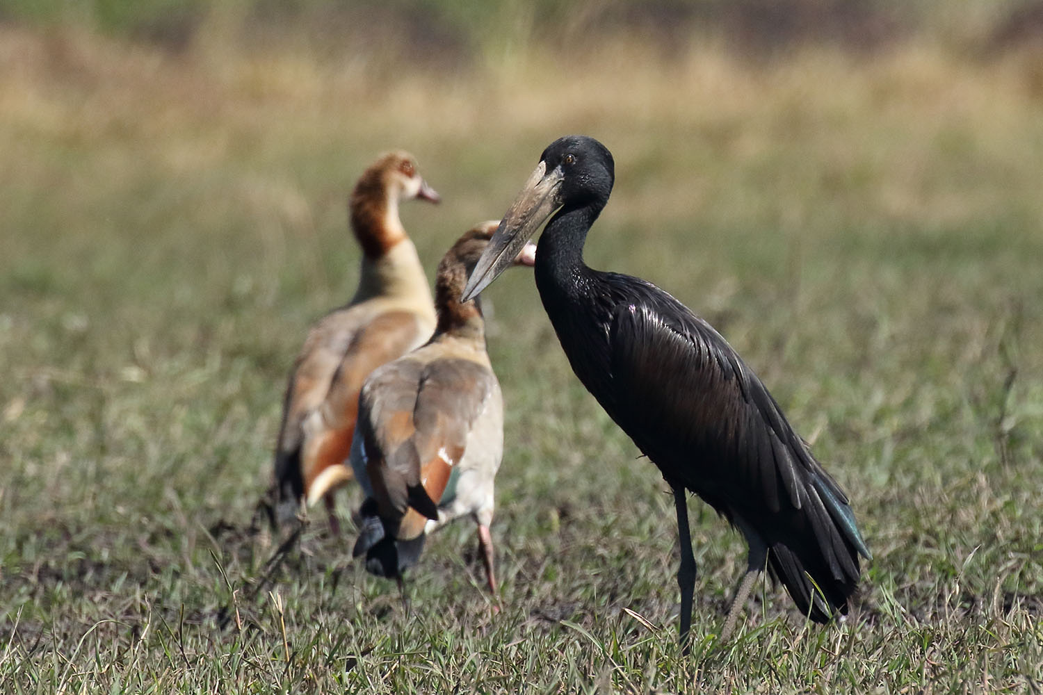 African Openbill, Bangweulu, Zambia